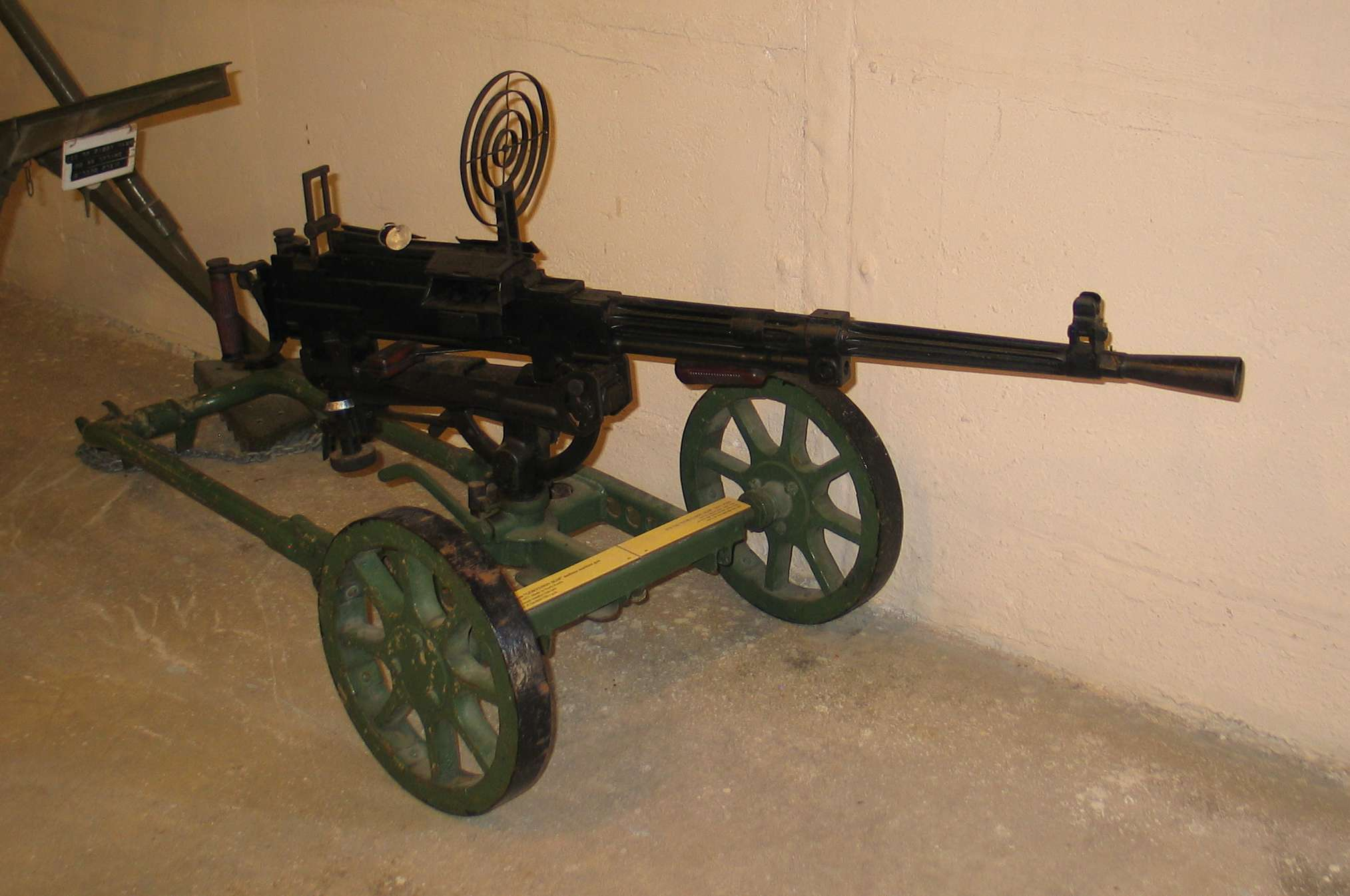 SGM machine gun in Batey ha-Osef museum, Tel Aviv, Israel.